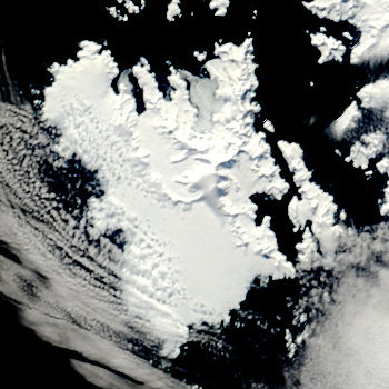 Anvers Island and Wiencke Island (smaller, to the right)